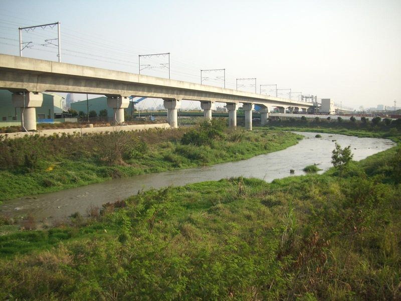 Position in the Taizhong Xitun District.